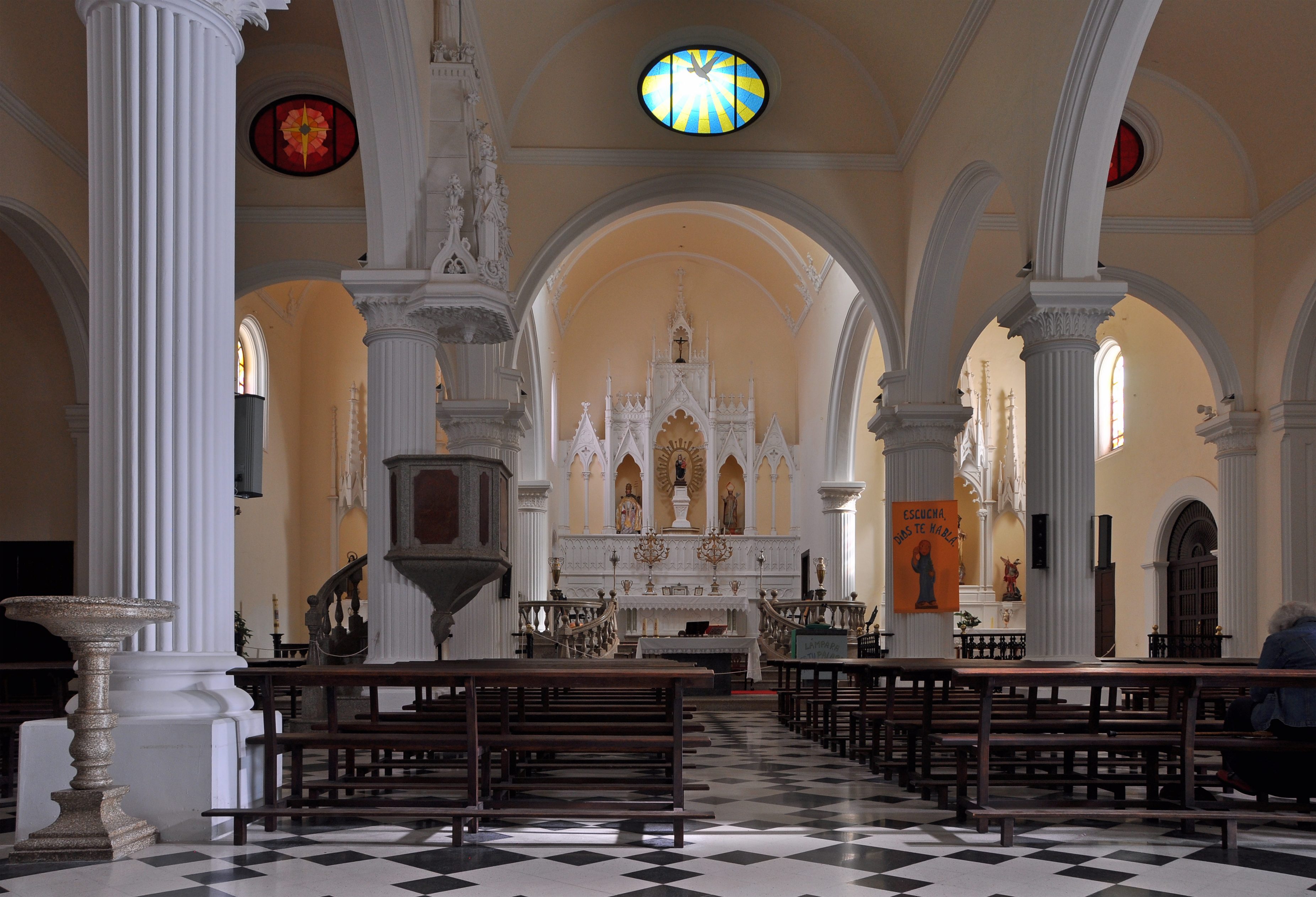 Teguise (Lanzarote, Canary Islands): interior of the church of La Nuestra Señora de Guadalupe